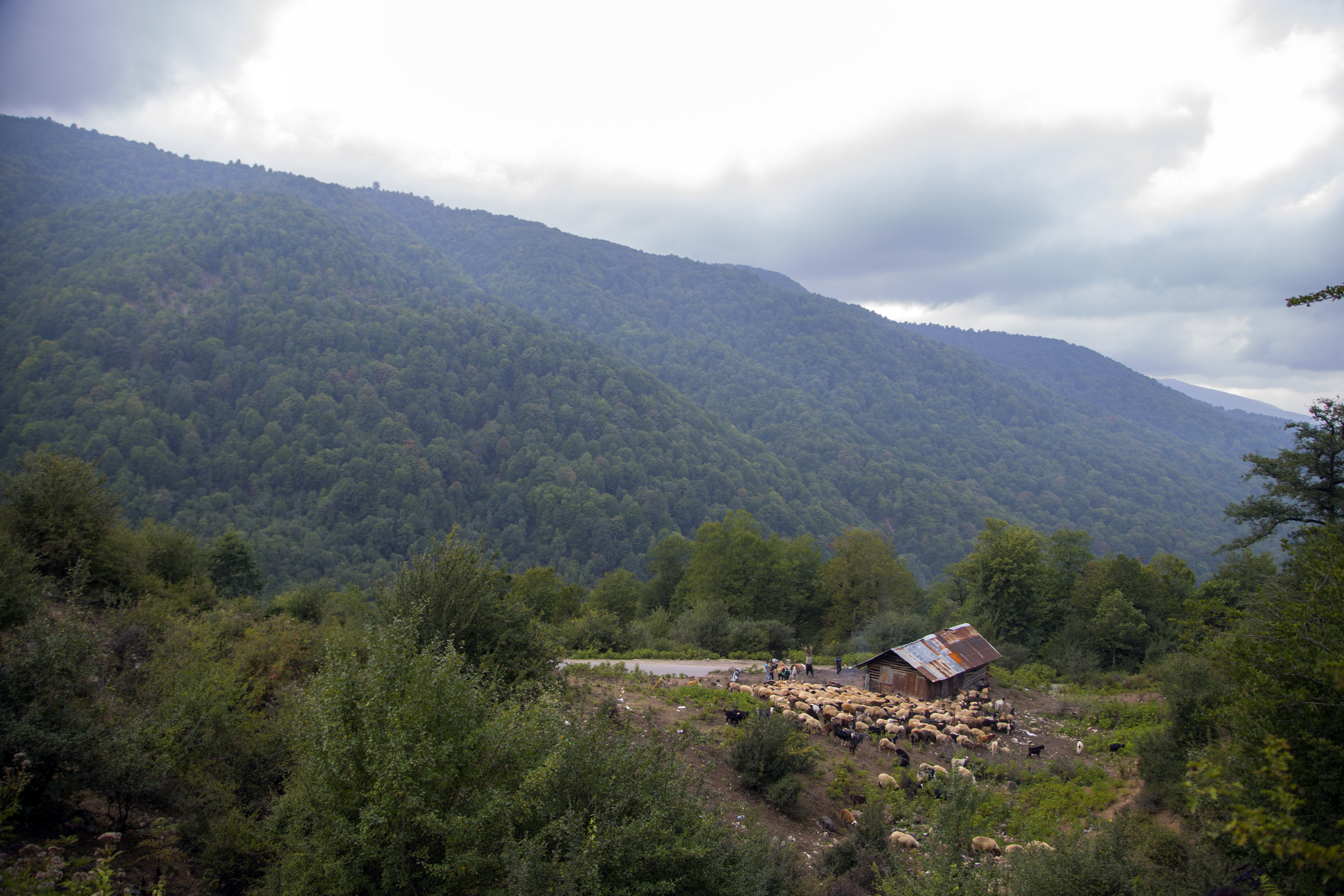 Filband (Persian: فيل بند, also Romanized as Fīlband) is a village in bandpey district, Babol County, Mazandaran Province, Iran. At the 2006 census, its population was 8, in 4 families.